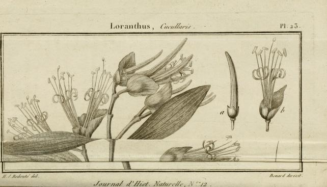 Psittacanthus cucullaris as Loranthus cucullaris (Lamarck, 1792) t. 23 (Taken from Journal d'histoire naturelle, Lamarck (1792) t.23)